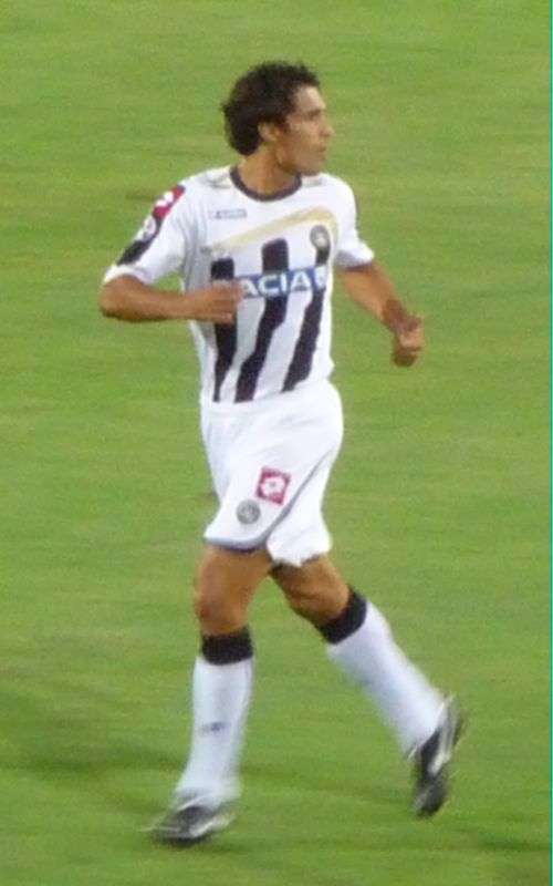 Udinese - Parma 2-2 23/08/2009